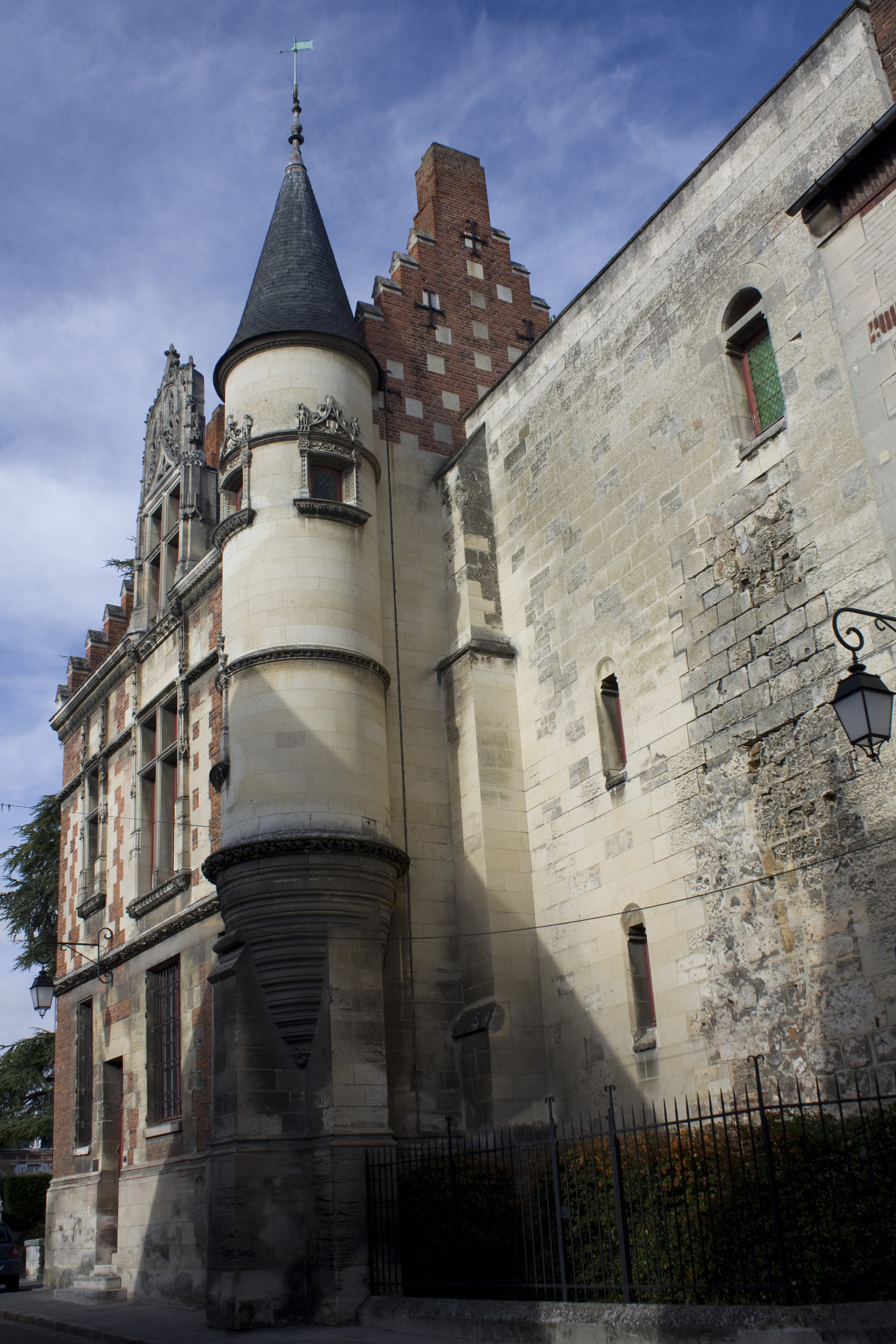 Episcopal Palace. (Currently Museum Noyon's region).